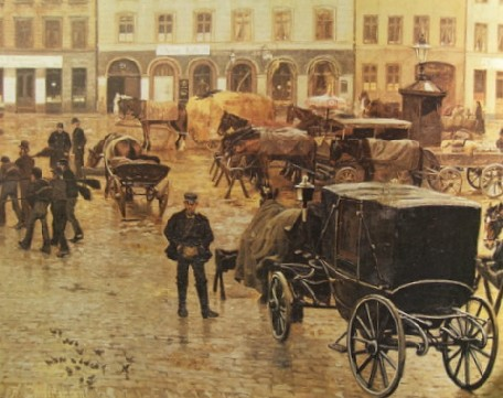 Painting of the northn part of Hauser Plads in Copenhagen, Denmark